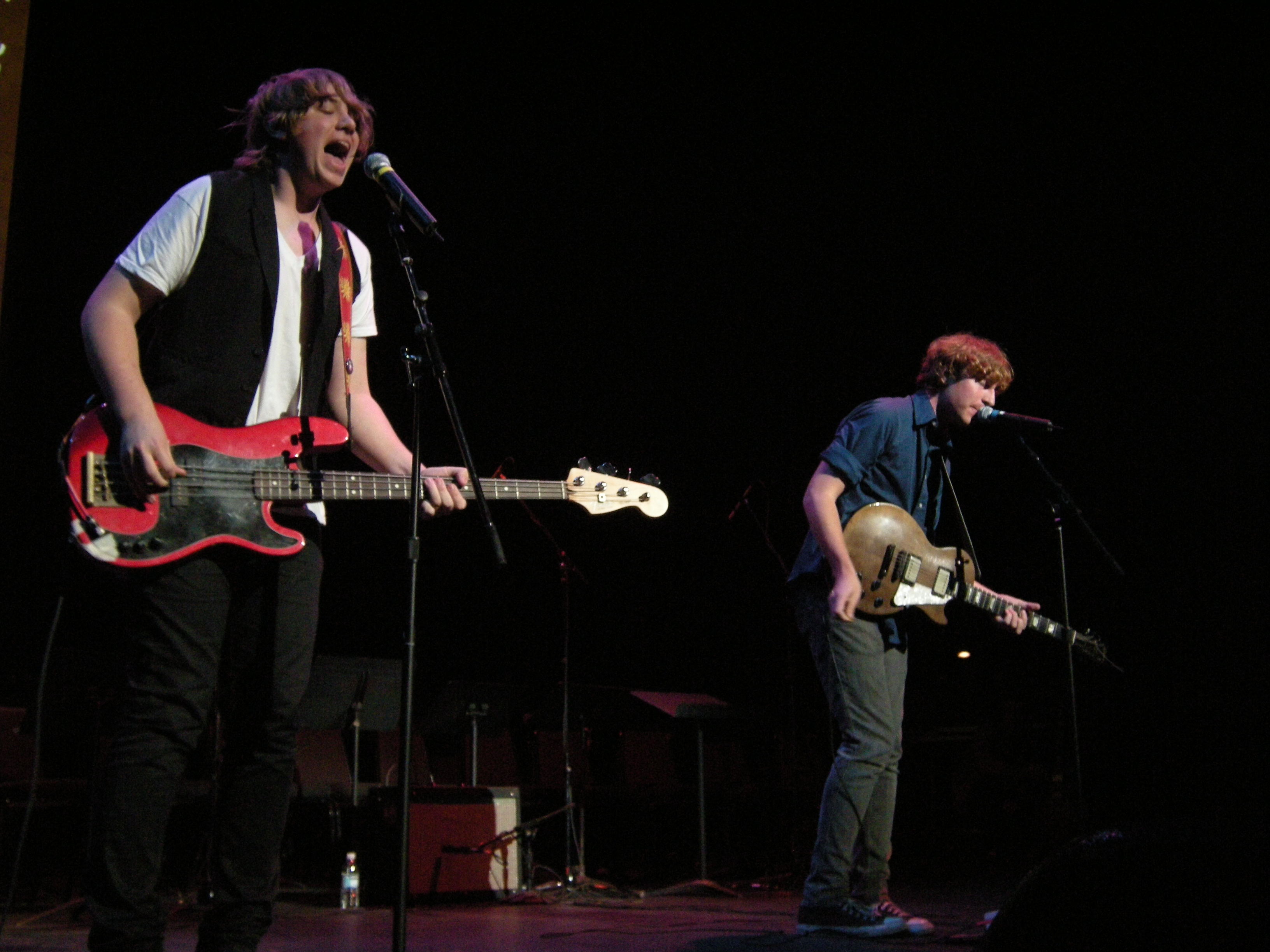 Kyle Hove and Nico Janssen of the band New Faces performing at the launch of "Seattle, City of Music", Paramount Theater, Seattle, Washington.